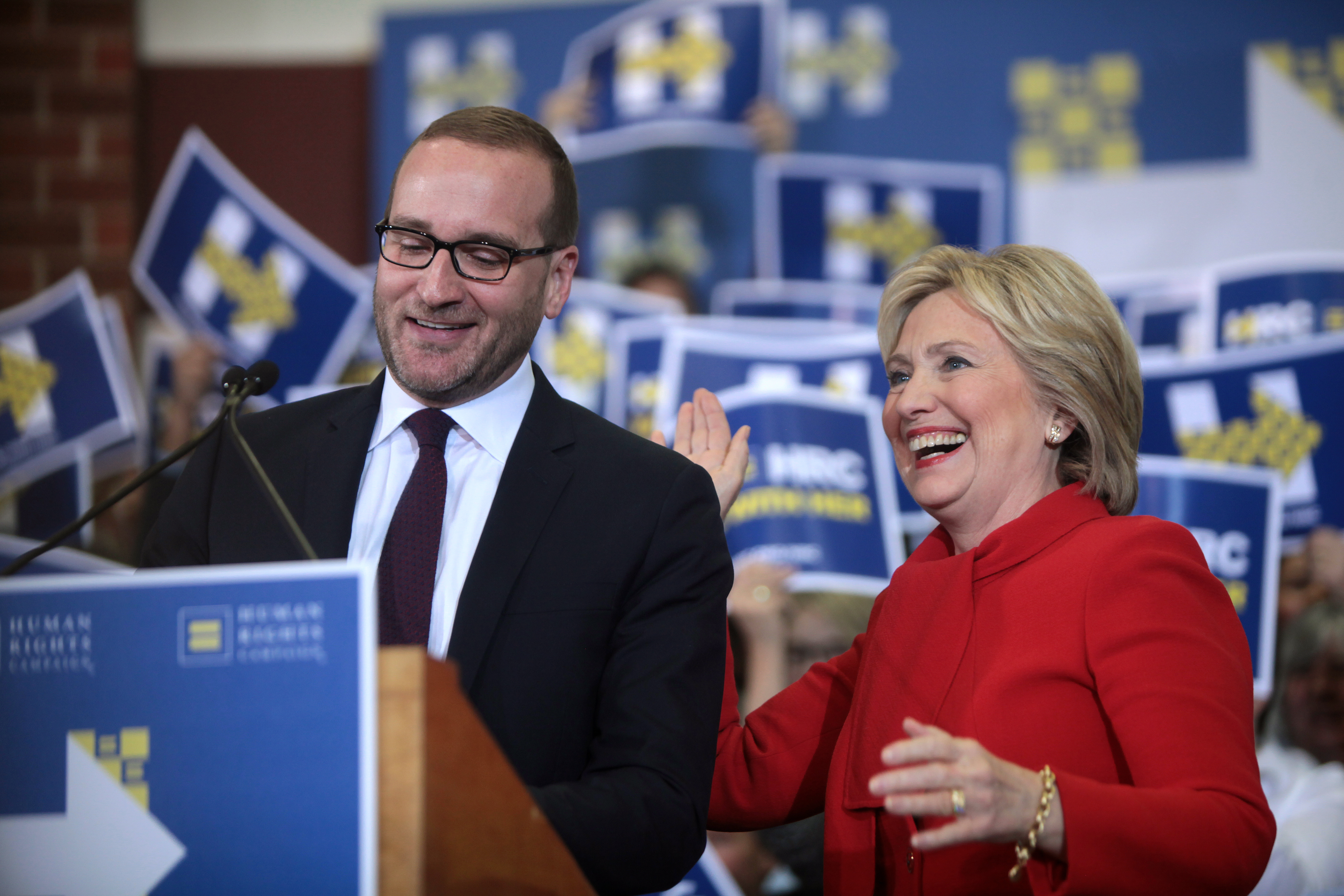 Former Secretary of State Hillary Clinton speaking with supporters at a "Get Out the Caucus" rally at Valley Southwoods Freshman High School in West Des Moines, Iowa.